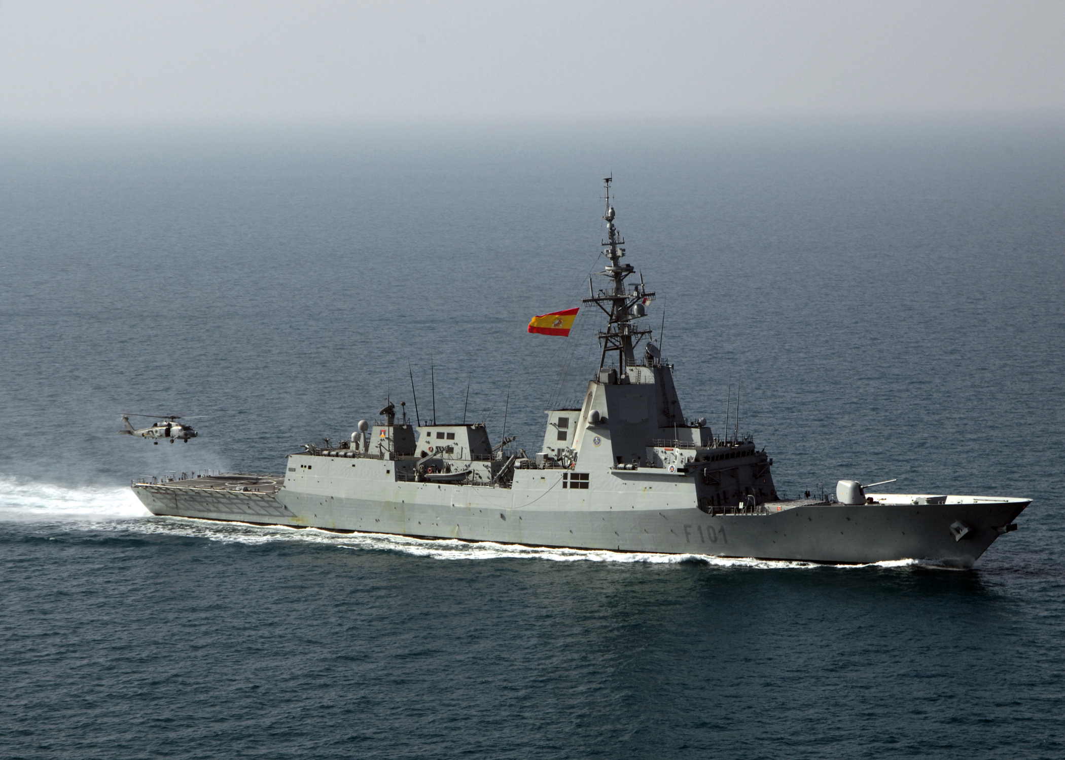 An SH-60 Seahawk helicopter prepares to land aboard the Spanish Navy frigate Alvaro de Bazan (F101) while underway in the Persian Gulf.